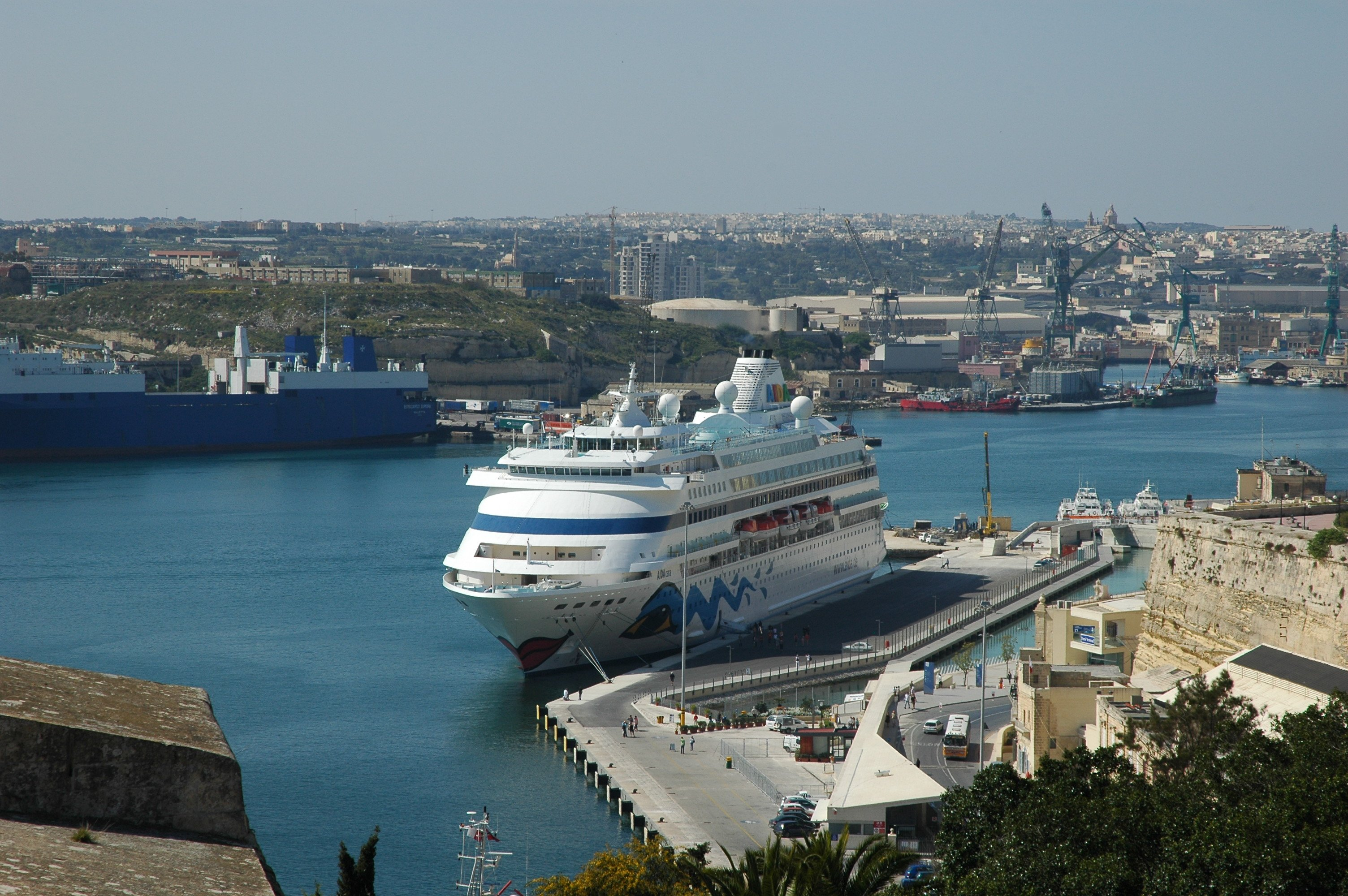 AIDAcara in Floriana, Malta IMO Number: 9112789 MMSI Number: 247117300 Callsign: IBNR Length: 193 m Beam: 32 m